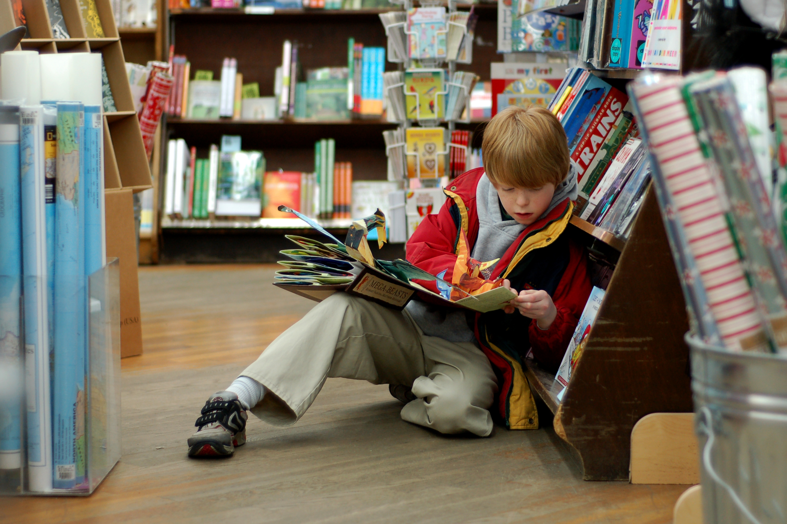 A child reading in Brookline Booksmith, an independent bookstore in Boston, Massachusetts.